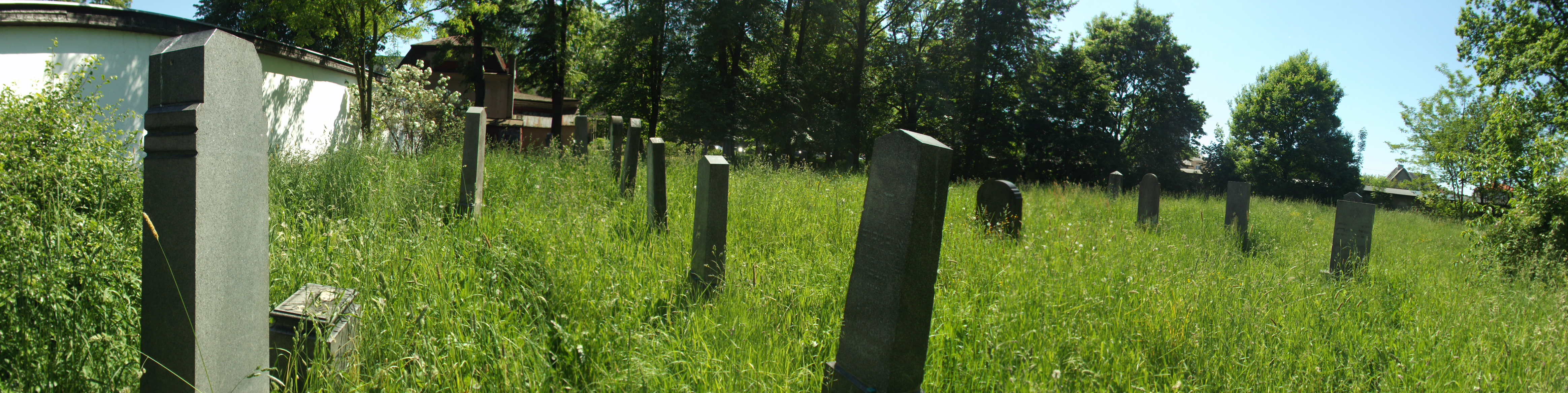 Jewish cemetery in Bohumín - panoramatic view